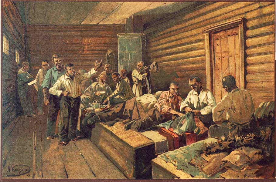 Nikolay Karazin's art for "The House of the Dead" by Dostoyevsky